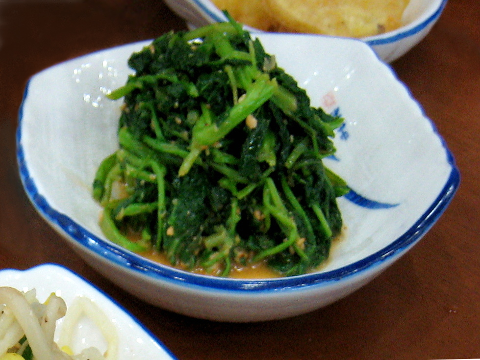 Sigeumchi namul (시금치나물, sauteed spinach) in Korean cuisine